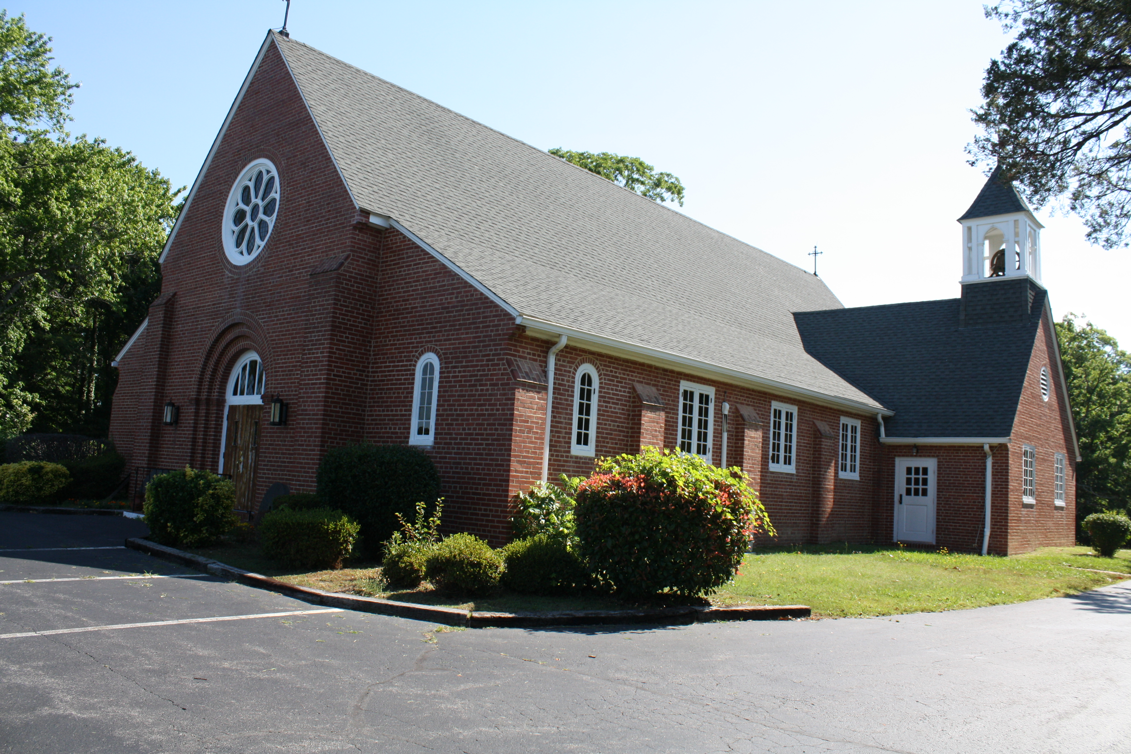 St. Peter Claver Catholic Church . 16922 St. Peter Claver Road . St. Inigoes, Maryland . Tuesday morning, 14 June 2011 .